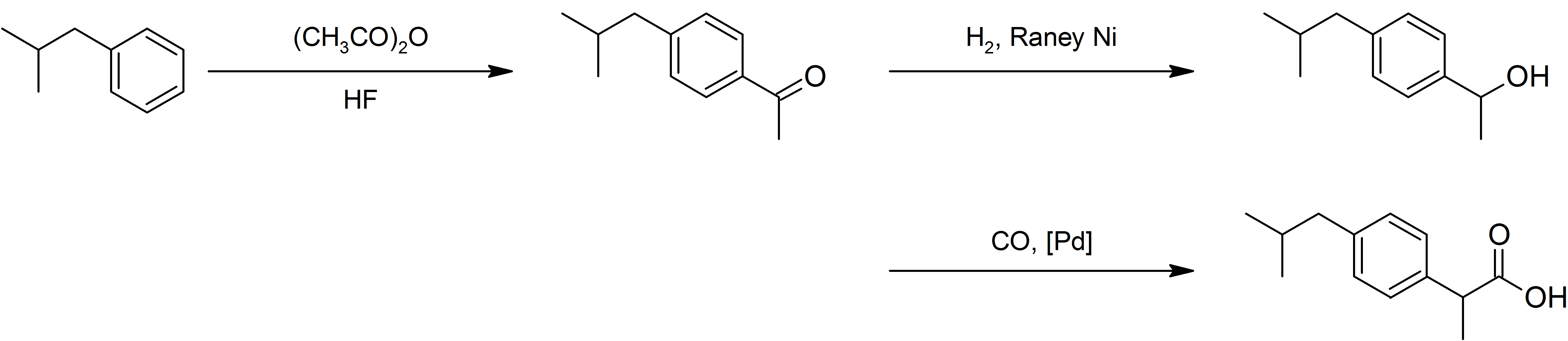 The improved, green chemistry synthesis of ibuprofen by BHC Adapted from